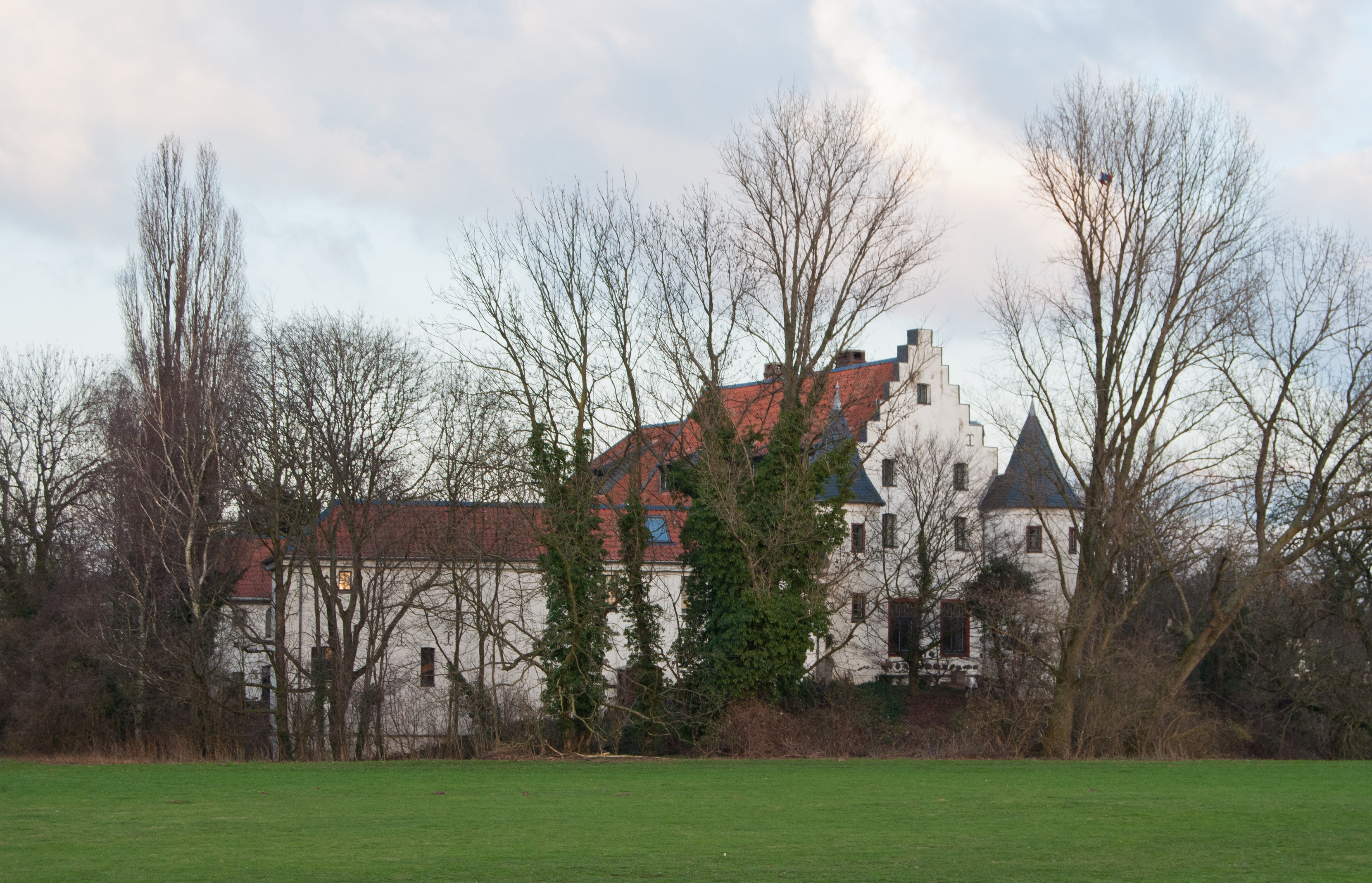 Krefeld (North Rhine-Westphalia, Germany) – castle Haus Rath This image shows a heritage building in Germany, located in the North Rhine-Westphalian city Krefeld (no. 180). This photograph was taken with a Nikon D3000.